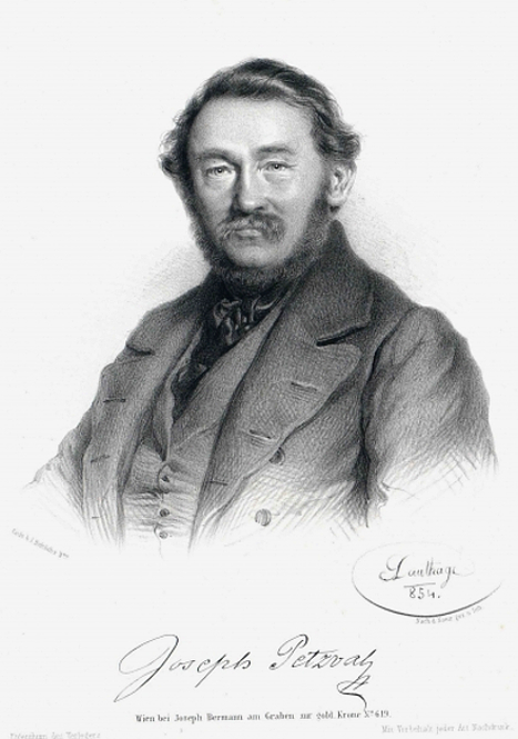 Josef Maximilian Petzval